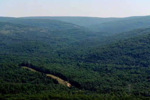 This is the view from atop Proffit Mountain in Reynolds County, Missouri towards Taum Sauk Mountain in Iron County, Missouri. Taum Sauk is the highest point in Missouri at 1772 ft. (540 m) above sea level.